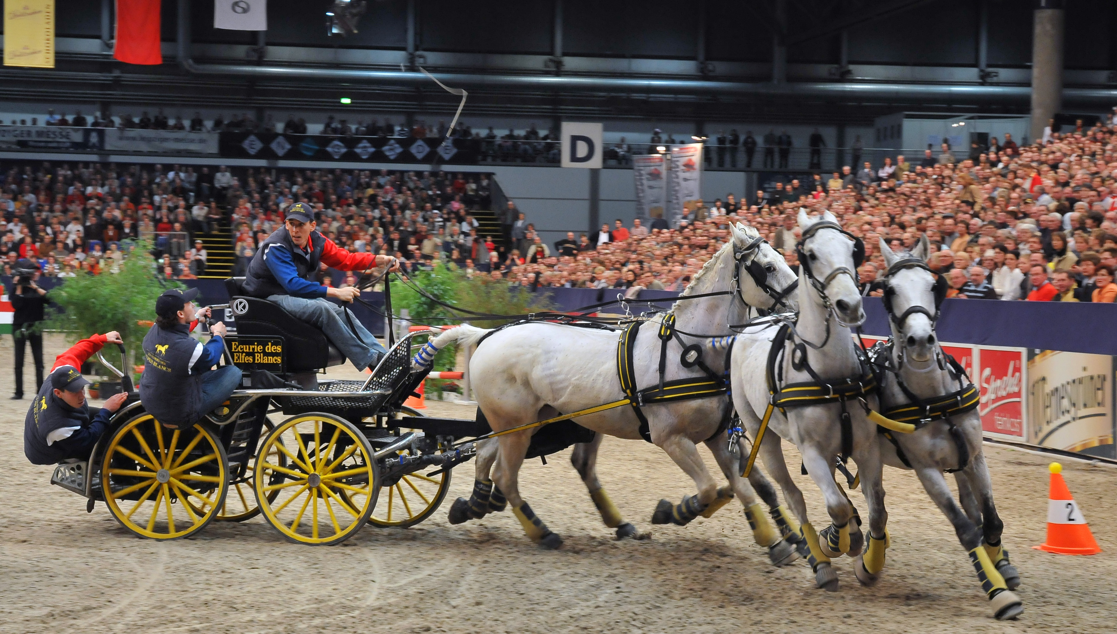 French driver Benjamin Aillaud at the final of the FEI World Cup Driving competiton in Leipzig, Germany in 2008.